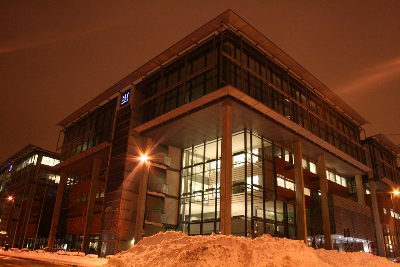 BI Norwegian School of Management, Campus Nydalen, Oslo, Norway